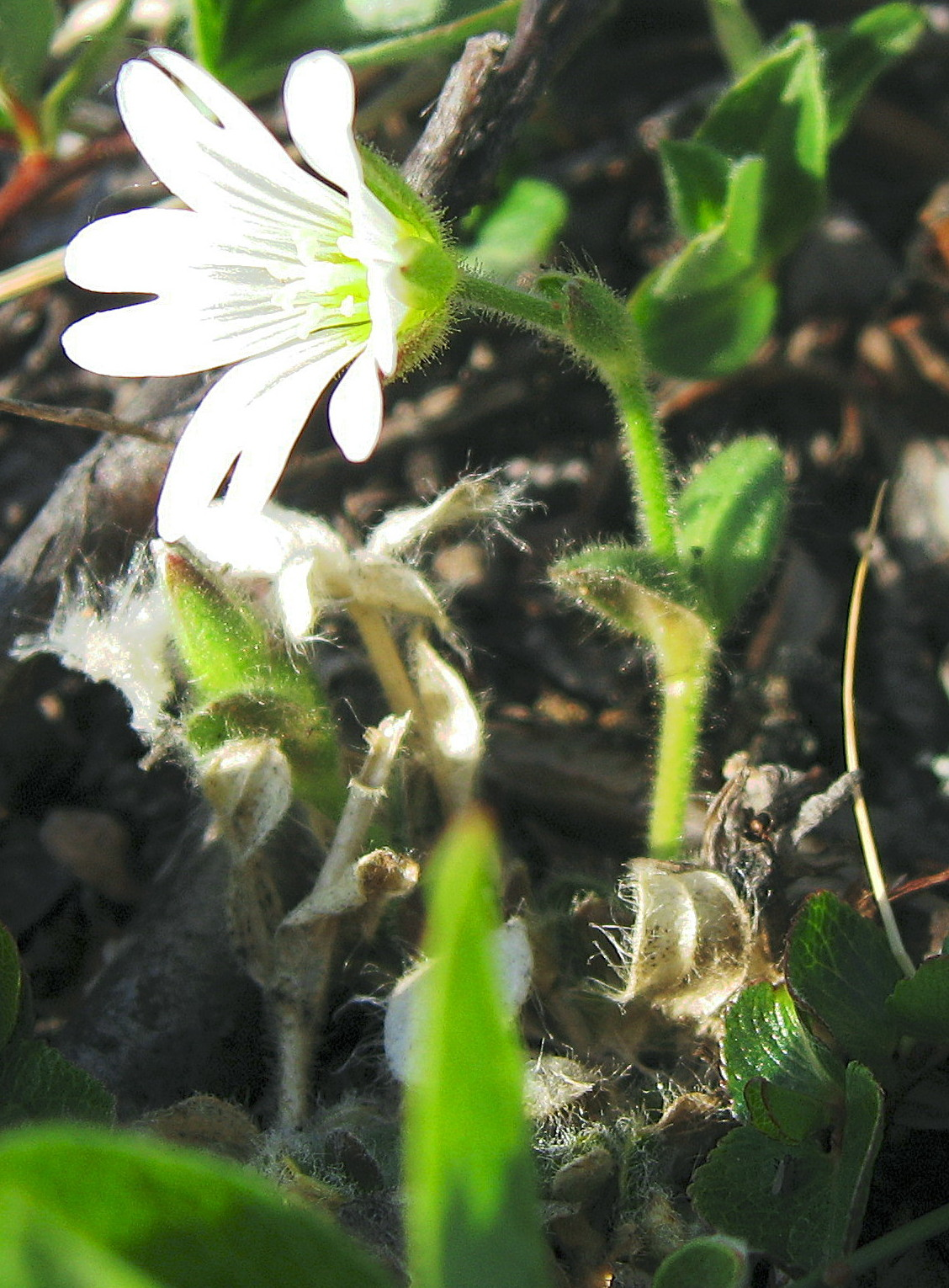 Arctic chickweed Cerastium arcticum photographed near Upernavik, Greenland.